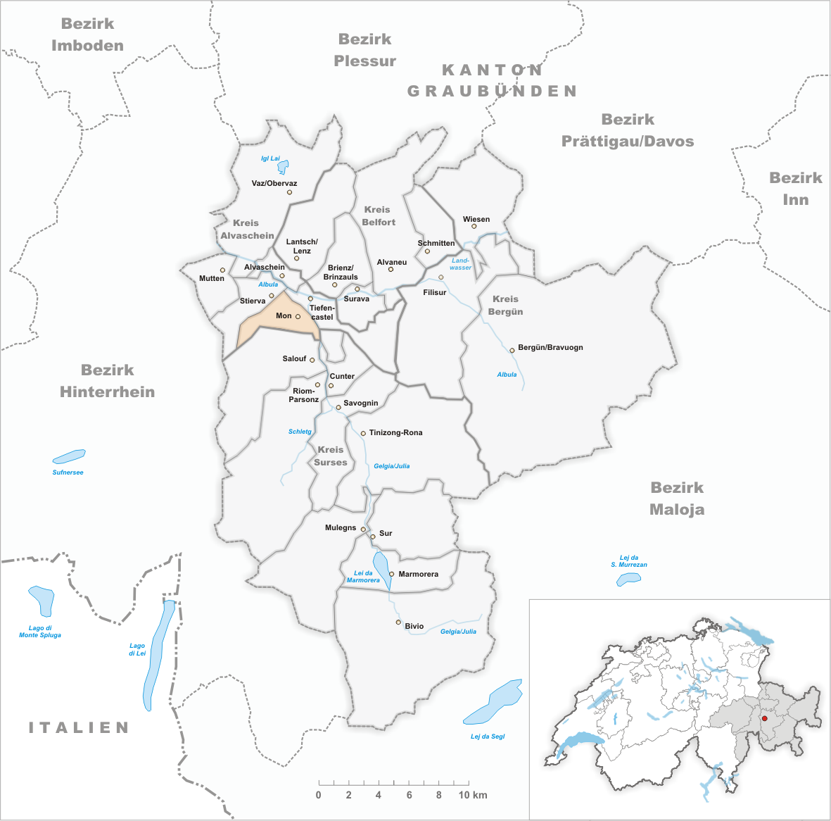 Municipality Mon